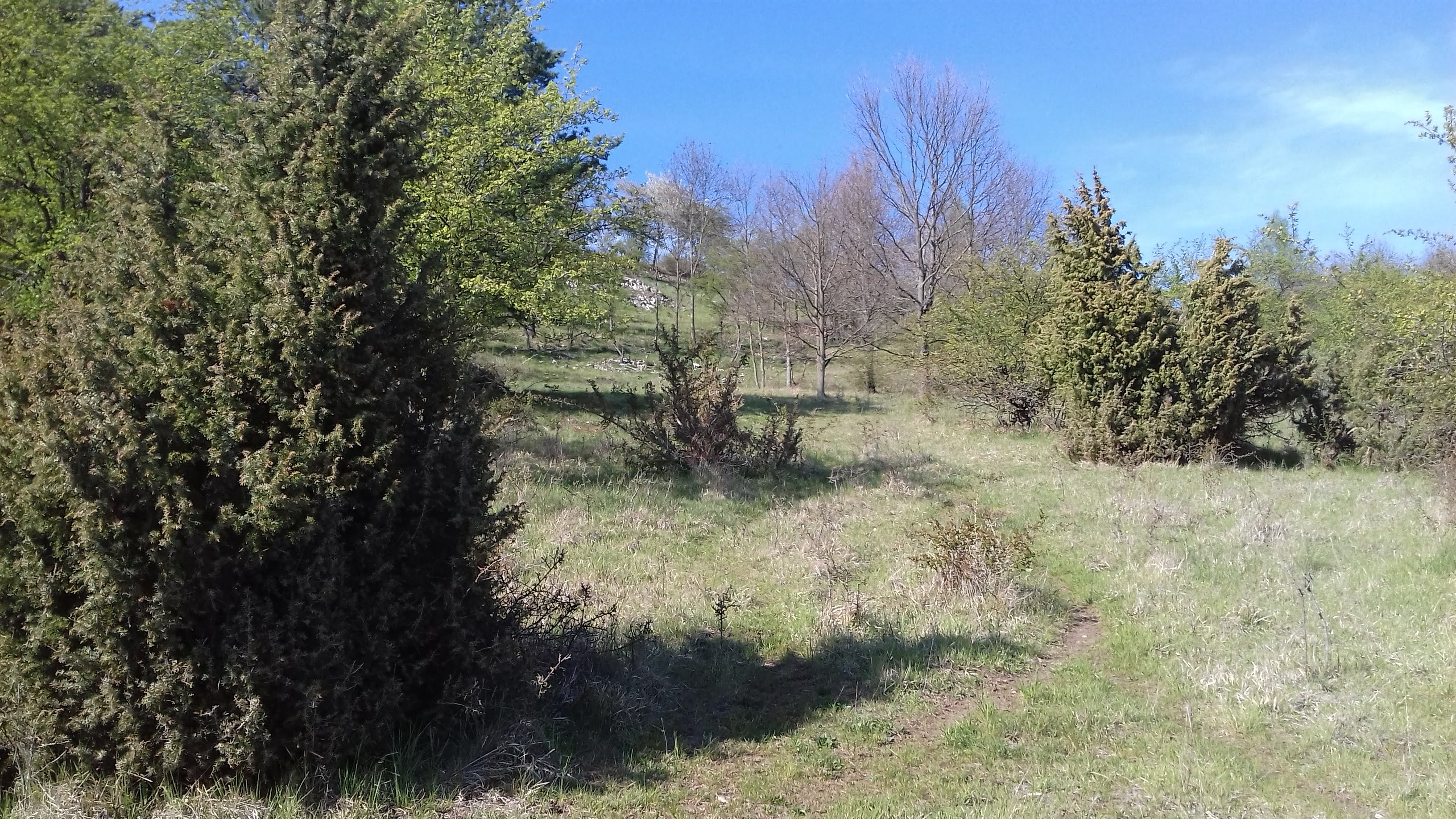 Juniperus communis in Týnčany karst